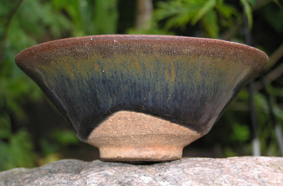 Temmoku China Song